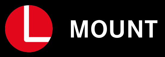 Logo of the L-mount alliance (founded in 2018)